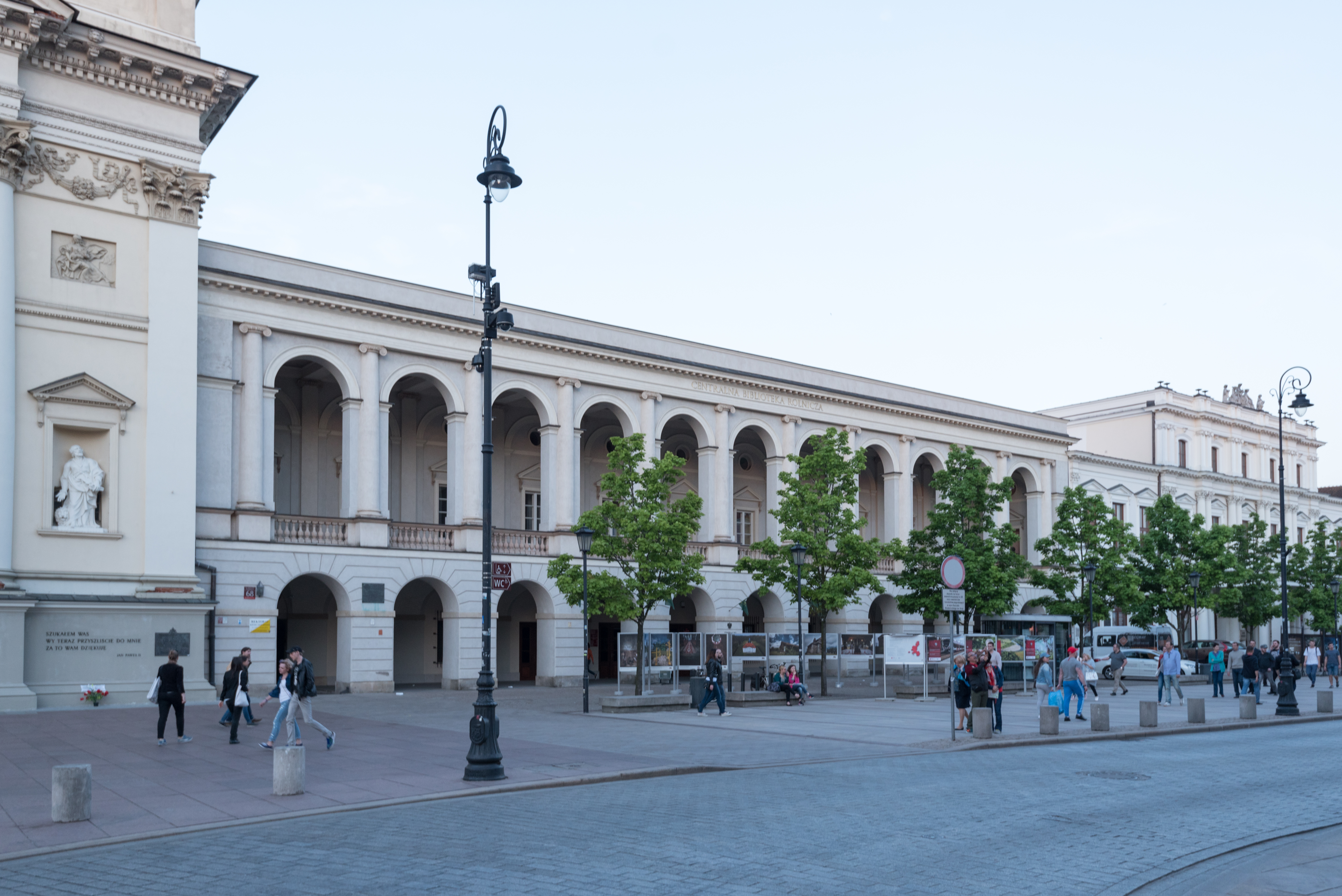 Warszawa, pl. Grzybowski 3-5